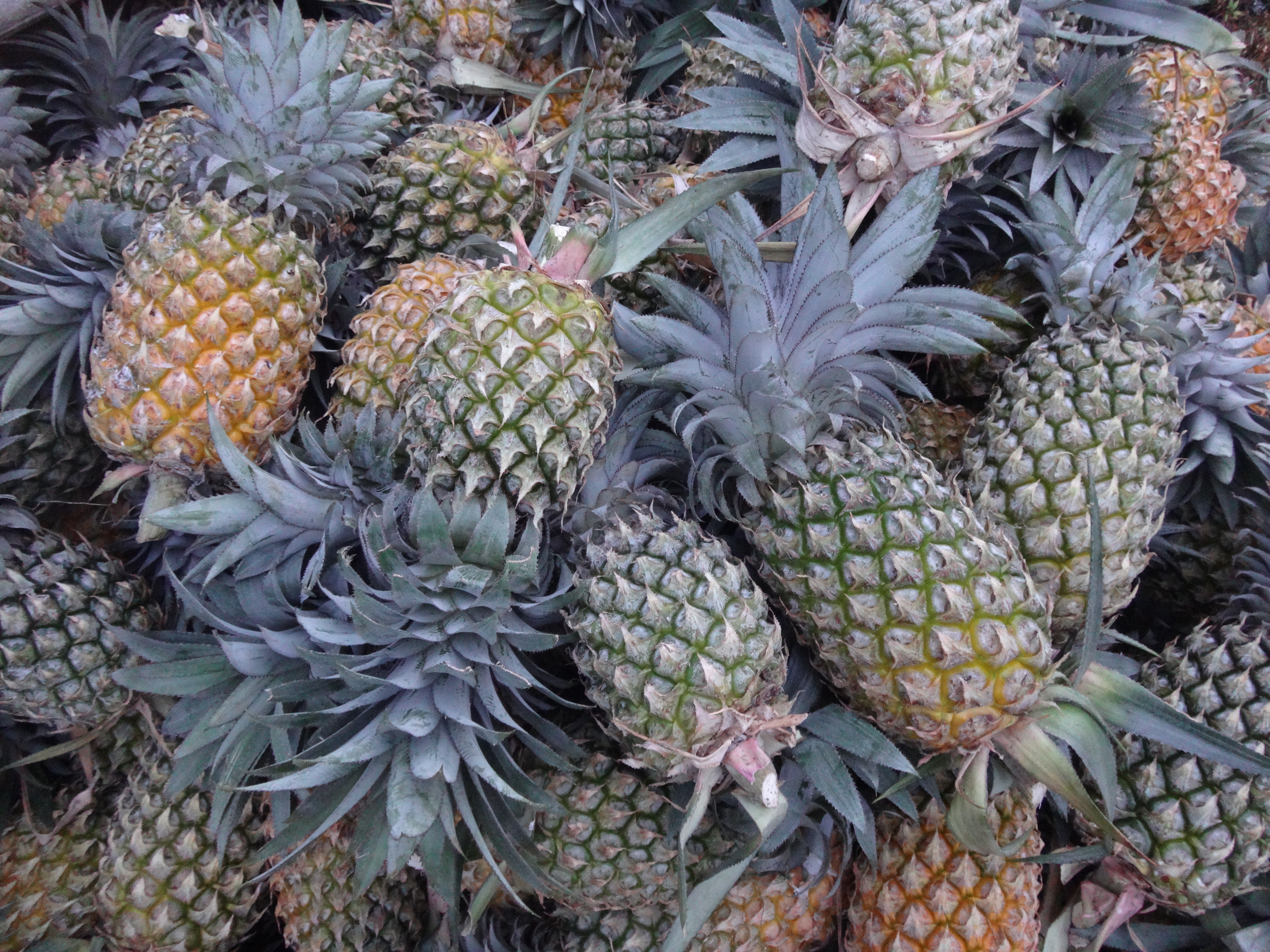 Pine apples